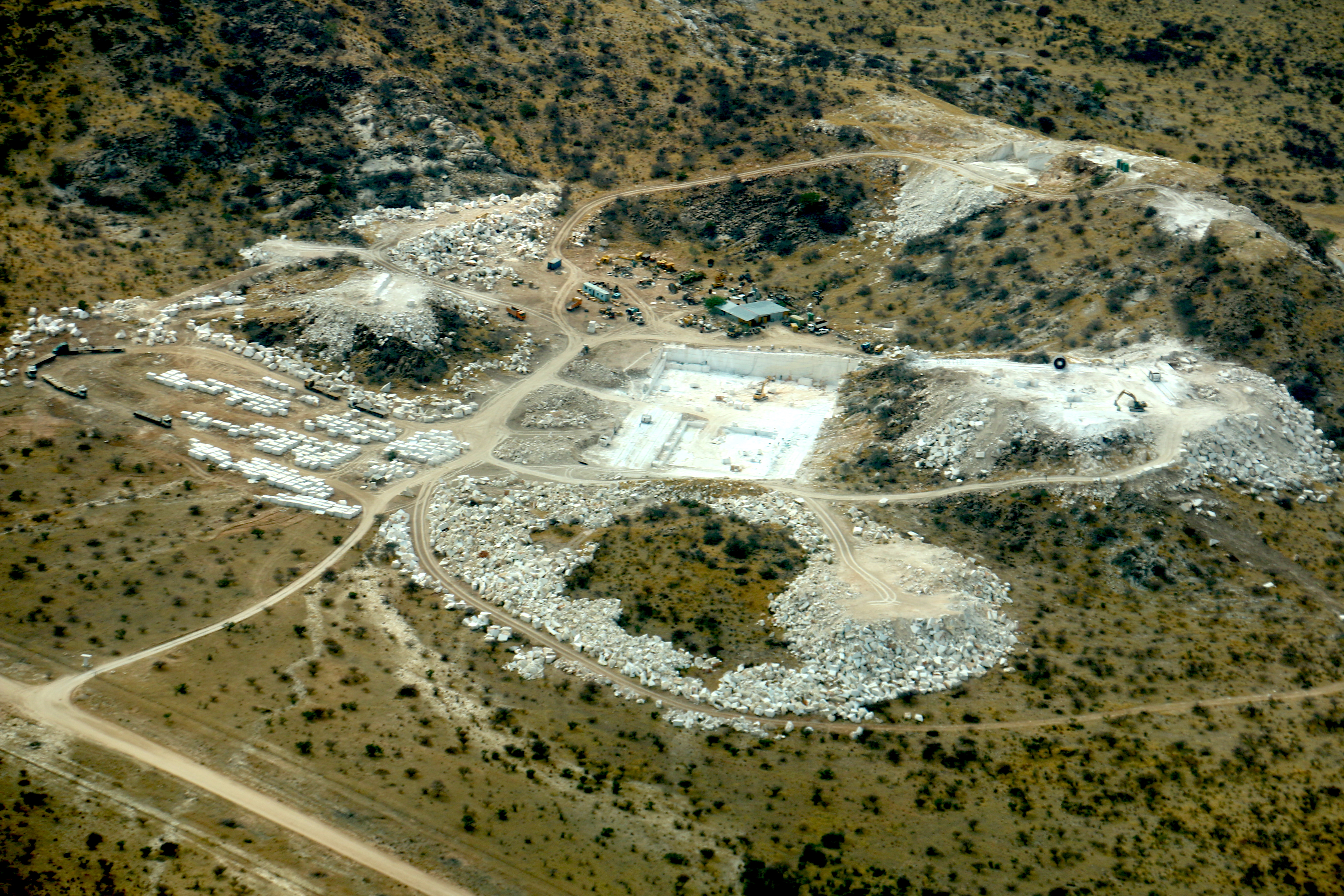 Marble Mine in Karibib (Aerial view 2017)